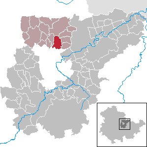 Großobringen in Thuringia - District Weimarer Land